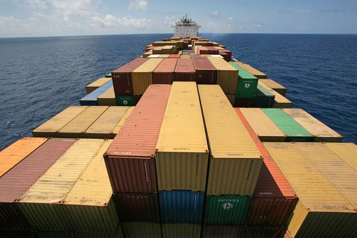 View over a cargo ship's bow at its deckhouse.